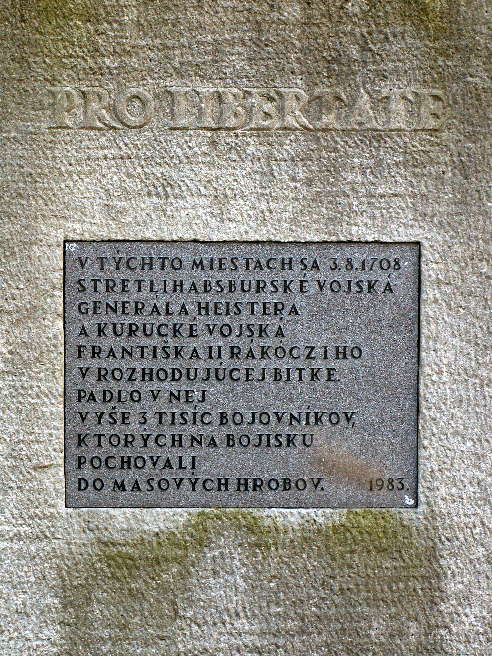 Plaque, Trenčín battle memorial in Trenčianska Turná. Text on the plaque: "In this places, on the 3rd of August 1708, Habsburg forces of general Heister and the Kuruc army of the Ferenc II Rákoczi met in decisive battle in which 3000 warriors have died, they were buried in mass graves." Date of instalation of plaque - 1983.